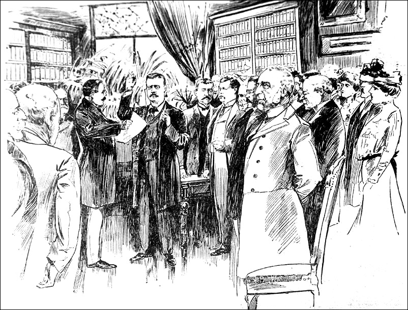 Theodore Roosevelt Inauguration in the Ansley Wilcox House in Buffalo, New York on September 14, en:1901. Originally, this drawing appeared in the Nashville, Tennessee News on October 13, 1901